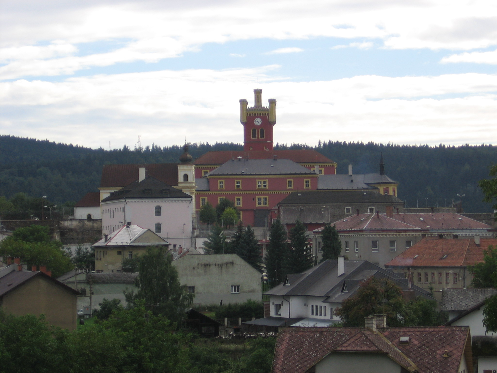 Mírov Prison (Czech Republic)